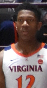 Ty Outlaw grabs the rebound for the Hokies in the First Half of the UVA Game at Cassell Coliseum